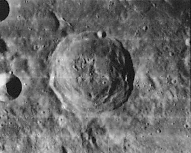 Delambre crater